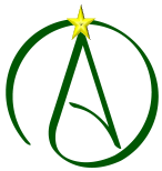 Atheist Circle 'A' XmasTree